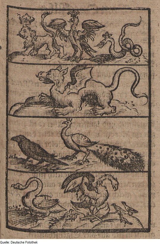 Original image description from the Deutsche Fotothek Theosophie & Alchemie